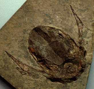 Author: A.V.Markov